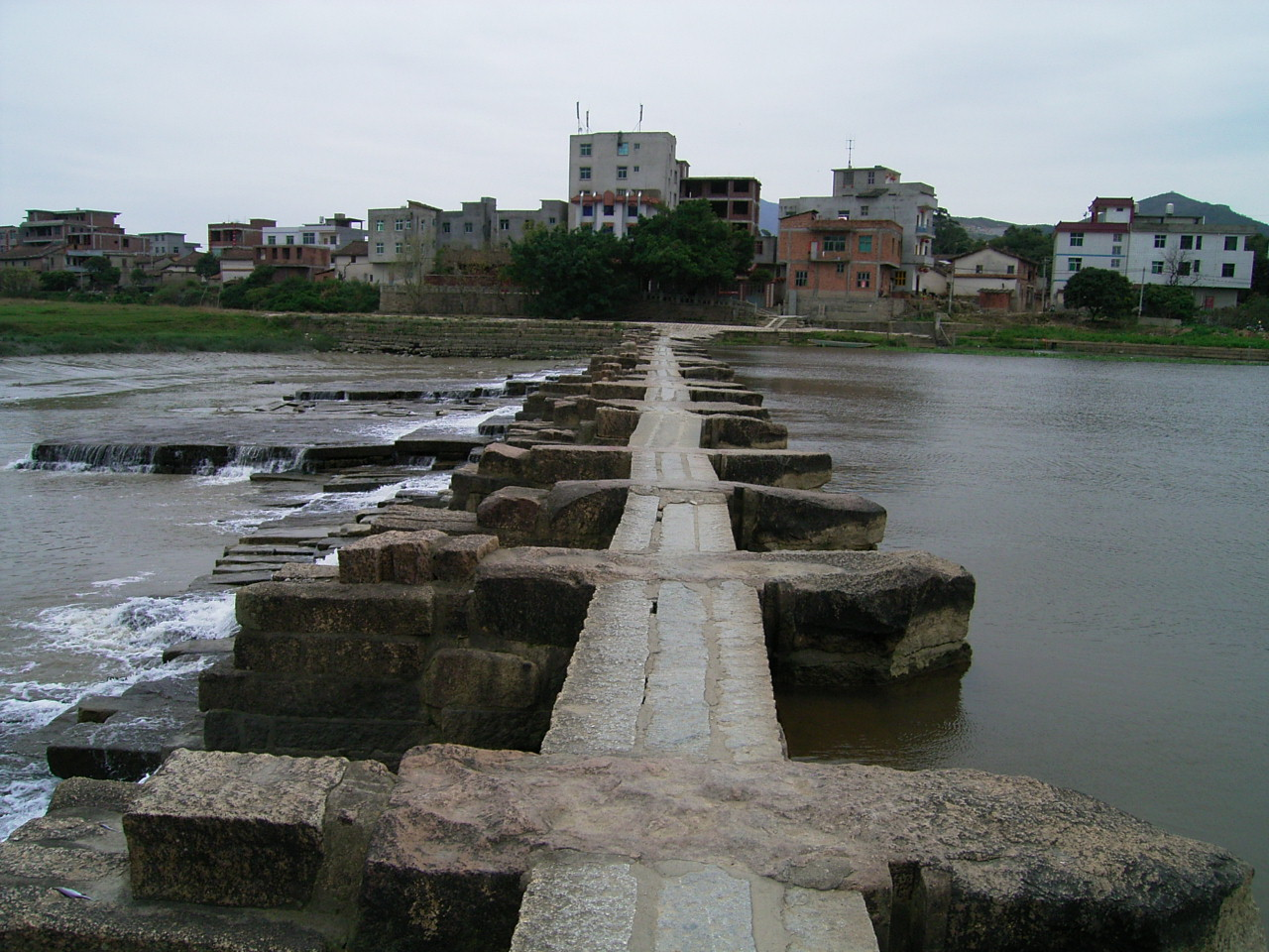 Mulanpo Irrigation System built in the 11th century in Putian, Fujian, China